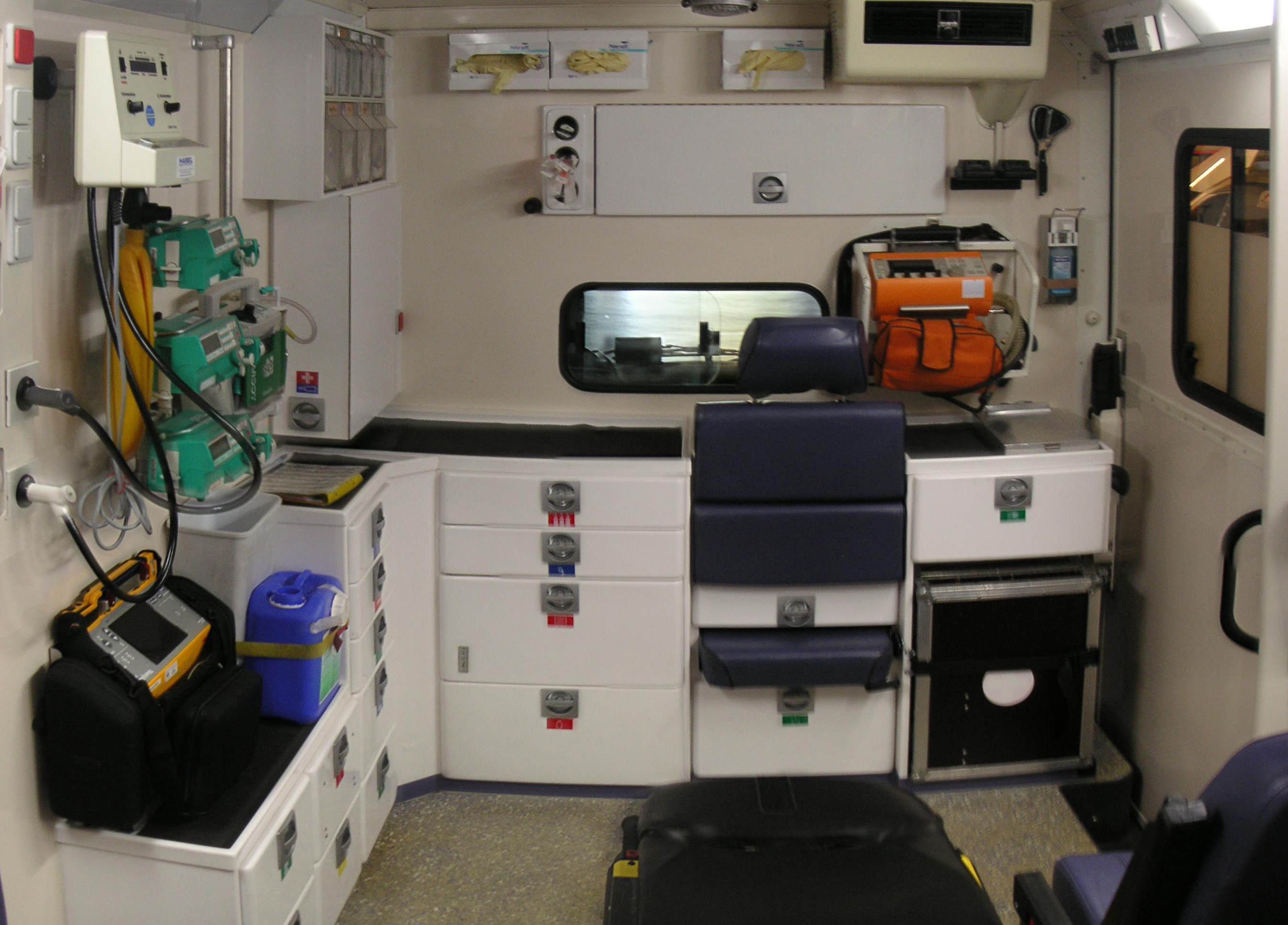 Interior of a Mobile Intensive Care Unit (MICU) Ambulance from Graz, Austria. This ambulance is primarily used for the emergency medical service and also for the transport of instable patients from hospital to hospital. For explainations of equipment, see the other version of the picture (link below).